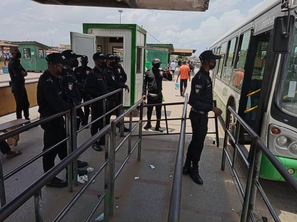 This is an image with the theme "Africa on the Move or Transport" from: Ivory Coast